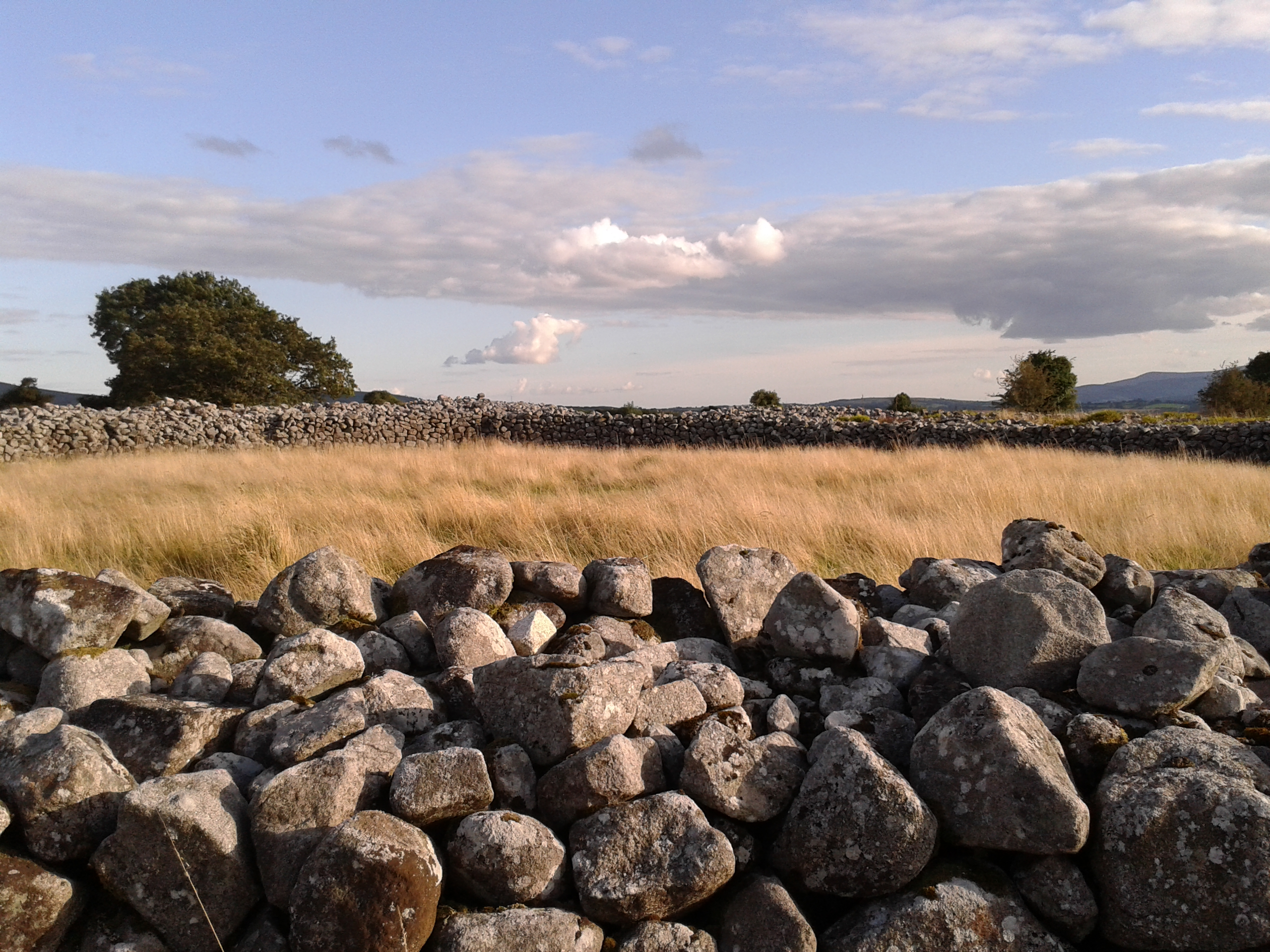 Rath Geal (Rathgall), The Ring of Rath, Hill Top Fort, Shillelagh, Wicklow Co.